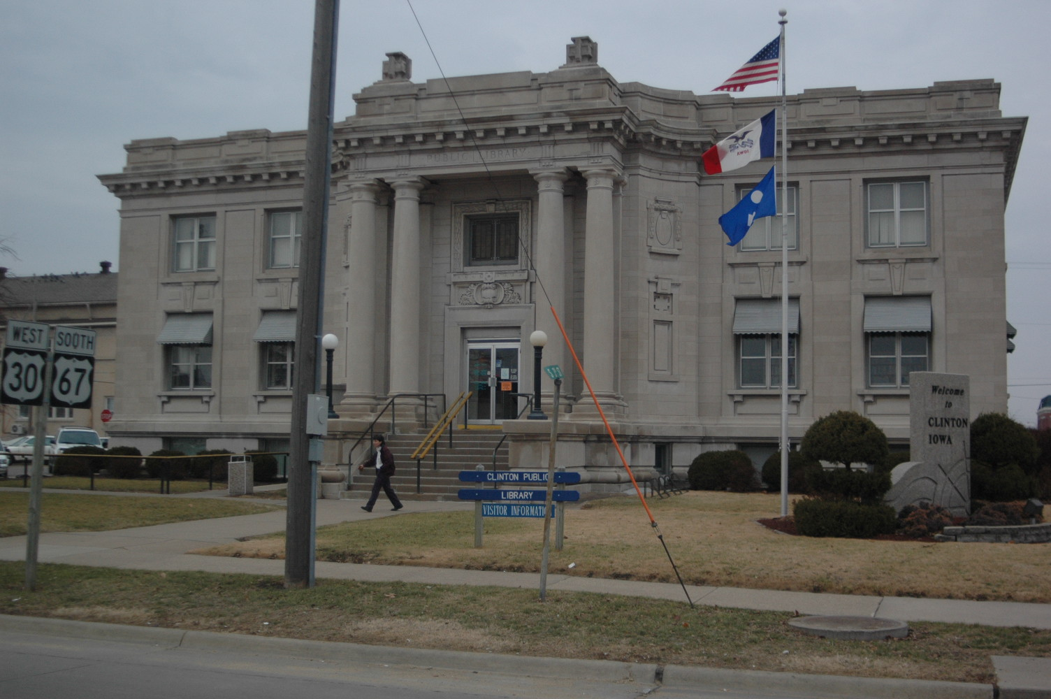 Clinton Public Library